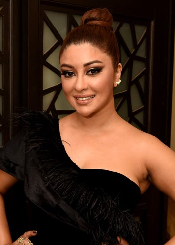 Payal Ghosh at the 63rd Jio Filmfare Awards 2018.